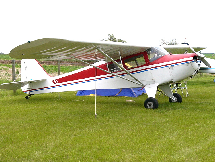 I took this photo of a Taylorcraft BC-12-D